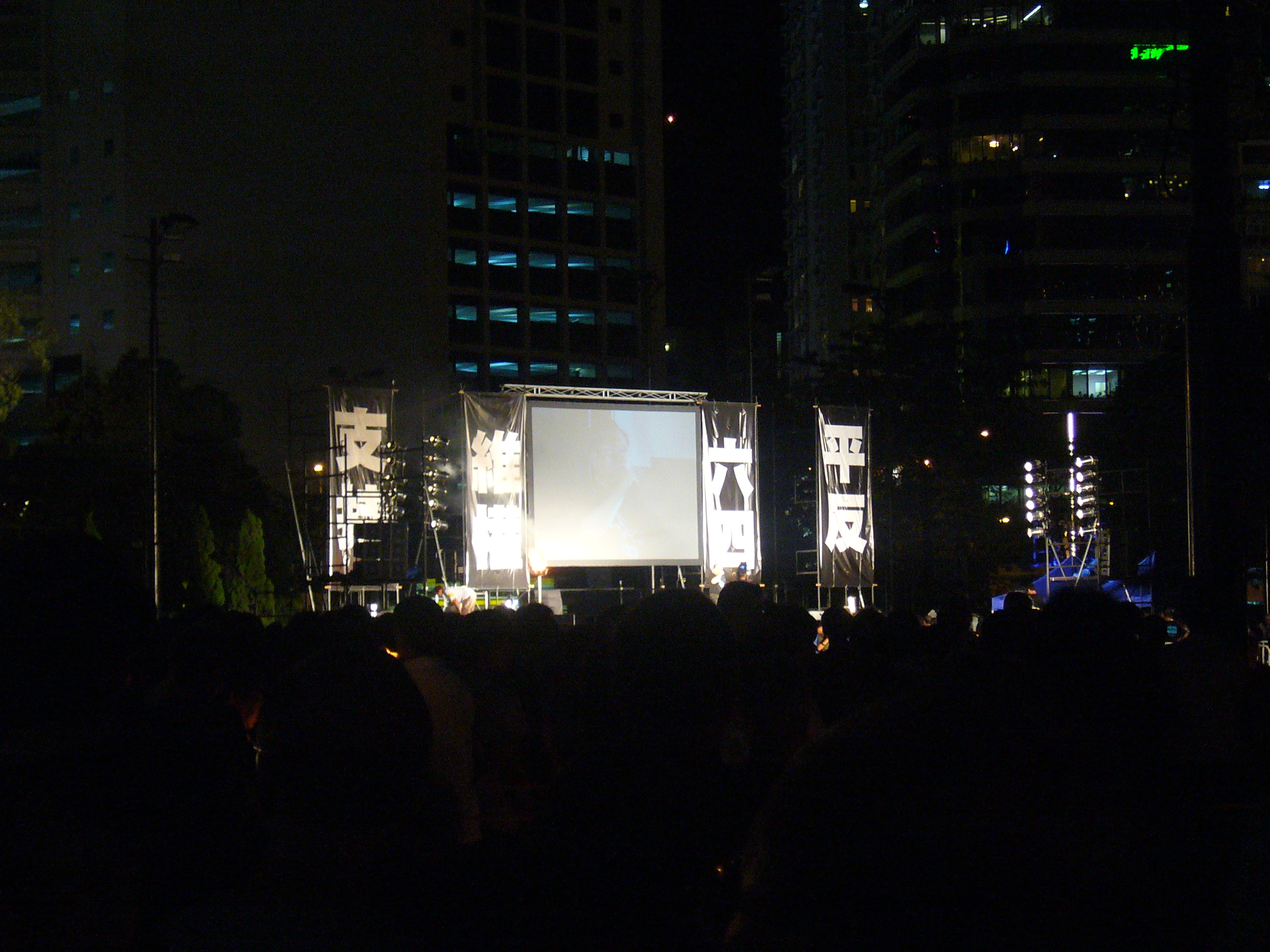 Candlelight Vigil in Hong Kong for the 18th Anniversary of the June 4 Massacre